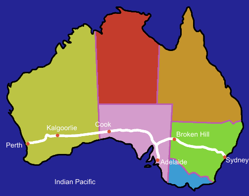 Route map of Indian Pacific in Australia shown in white. I made the map. The places shown are where the train stops where there is enough time to look around (about 3 hours in Kalgoorlie, Adelaide & Broken Hill and 1 hour in Cook)